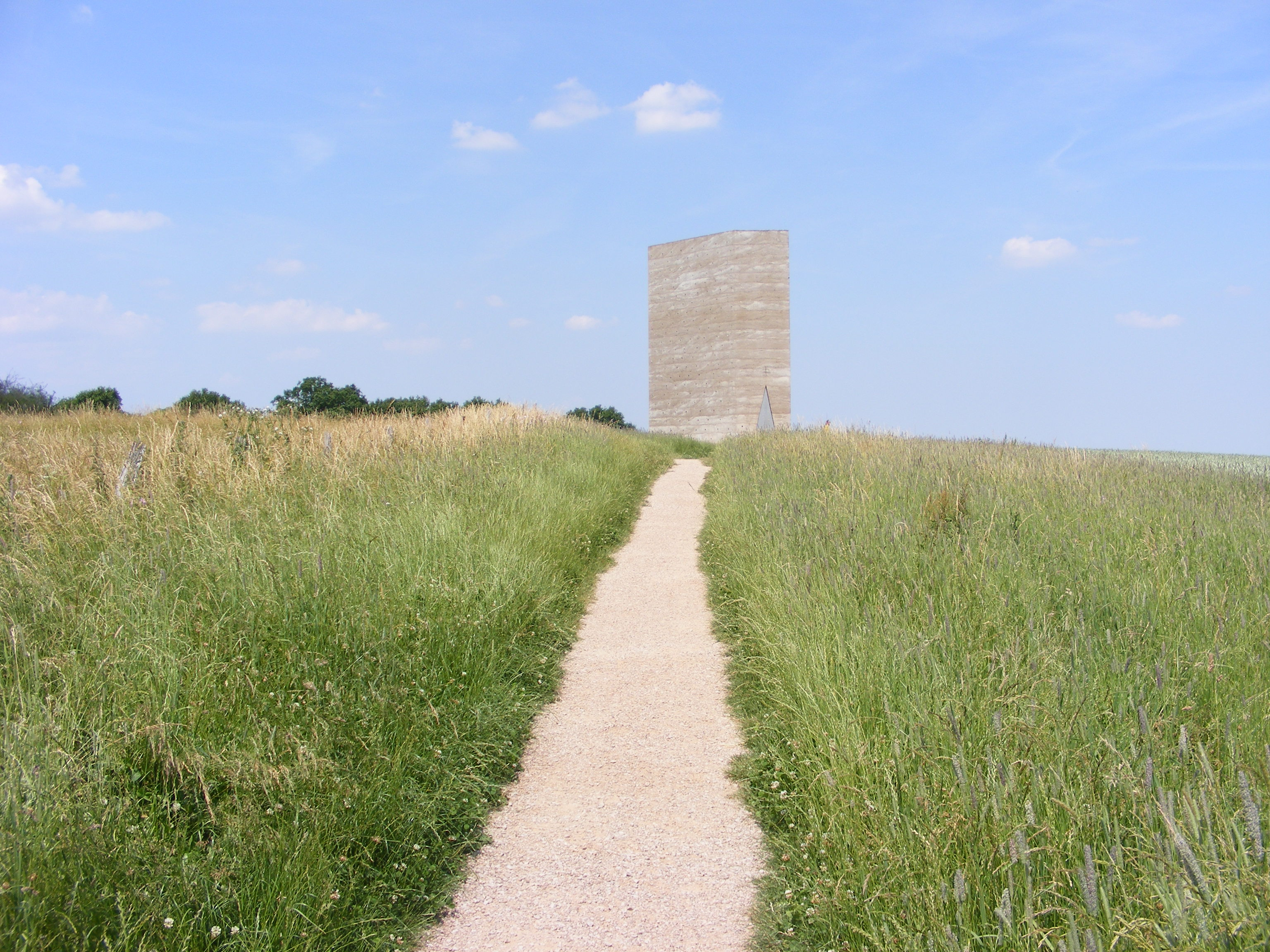 Chapel Bruder Klaus, Germany